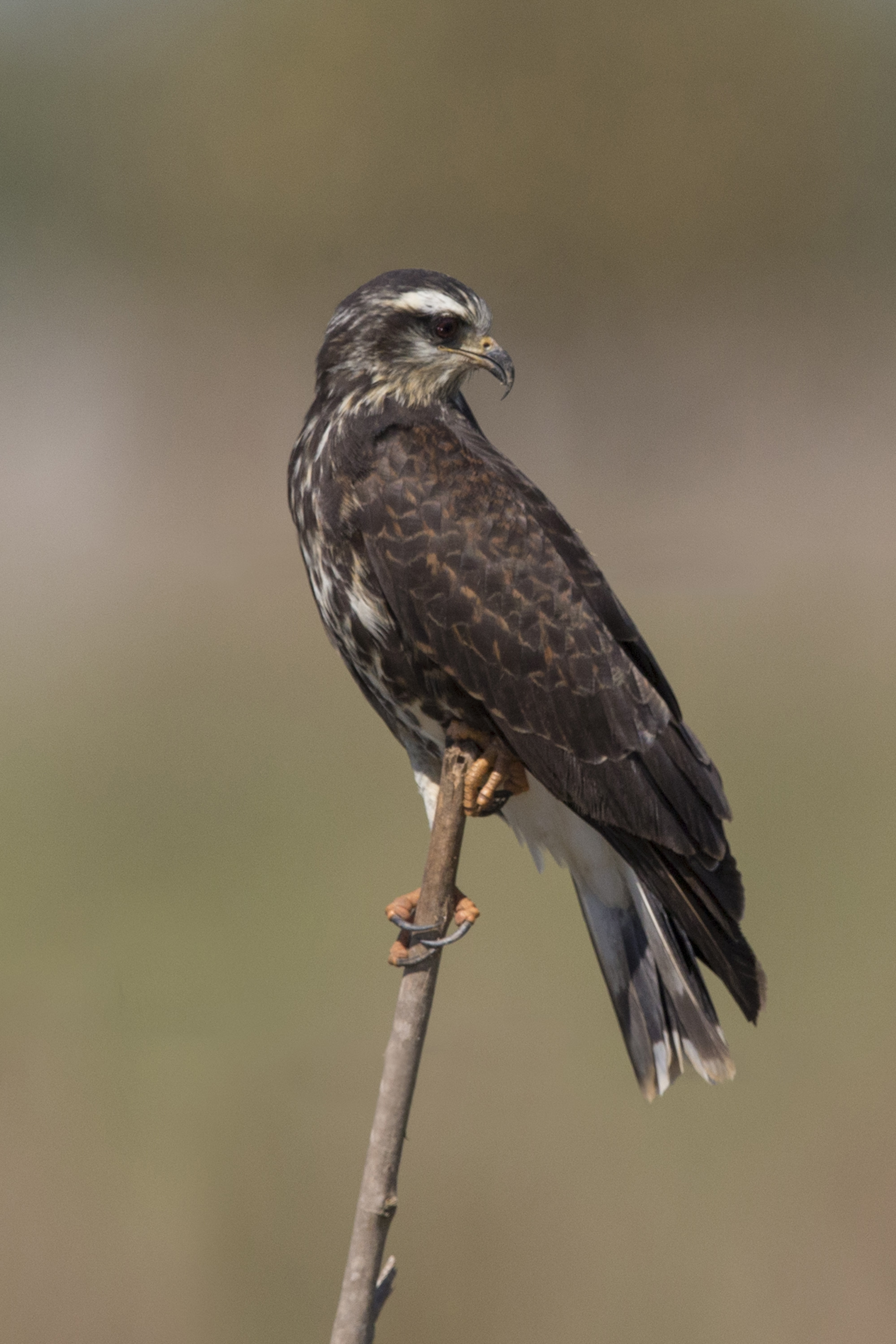 Female Snail Kite